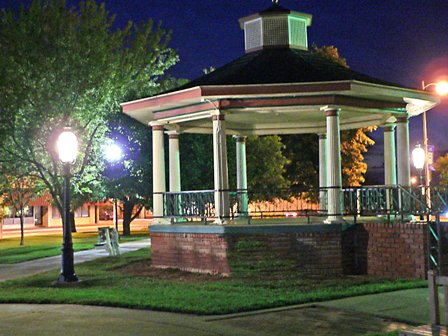 Gazebo-Paola,Kansas